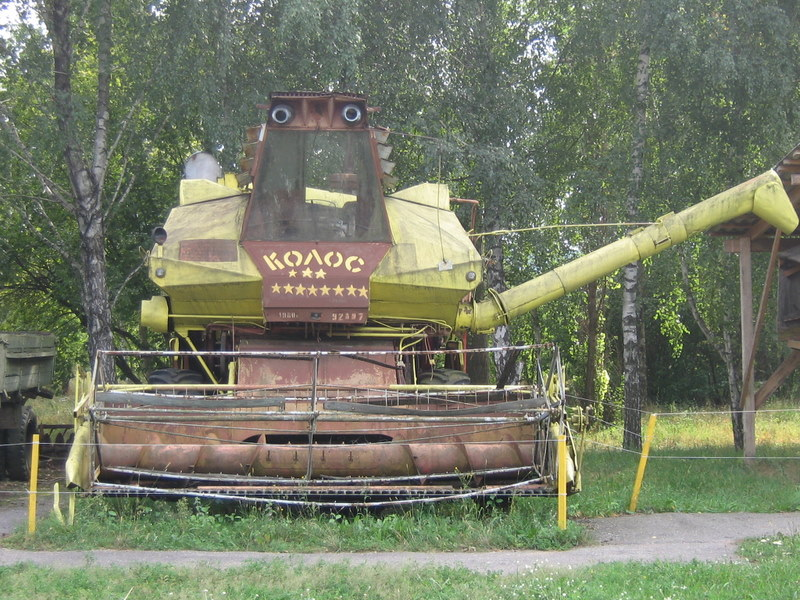 Combine harvester USSR Колос in Museum of folk architecture and way of life of Middle Naddnipryanschina